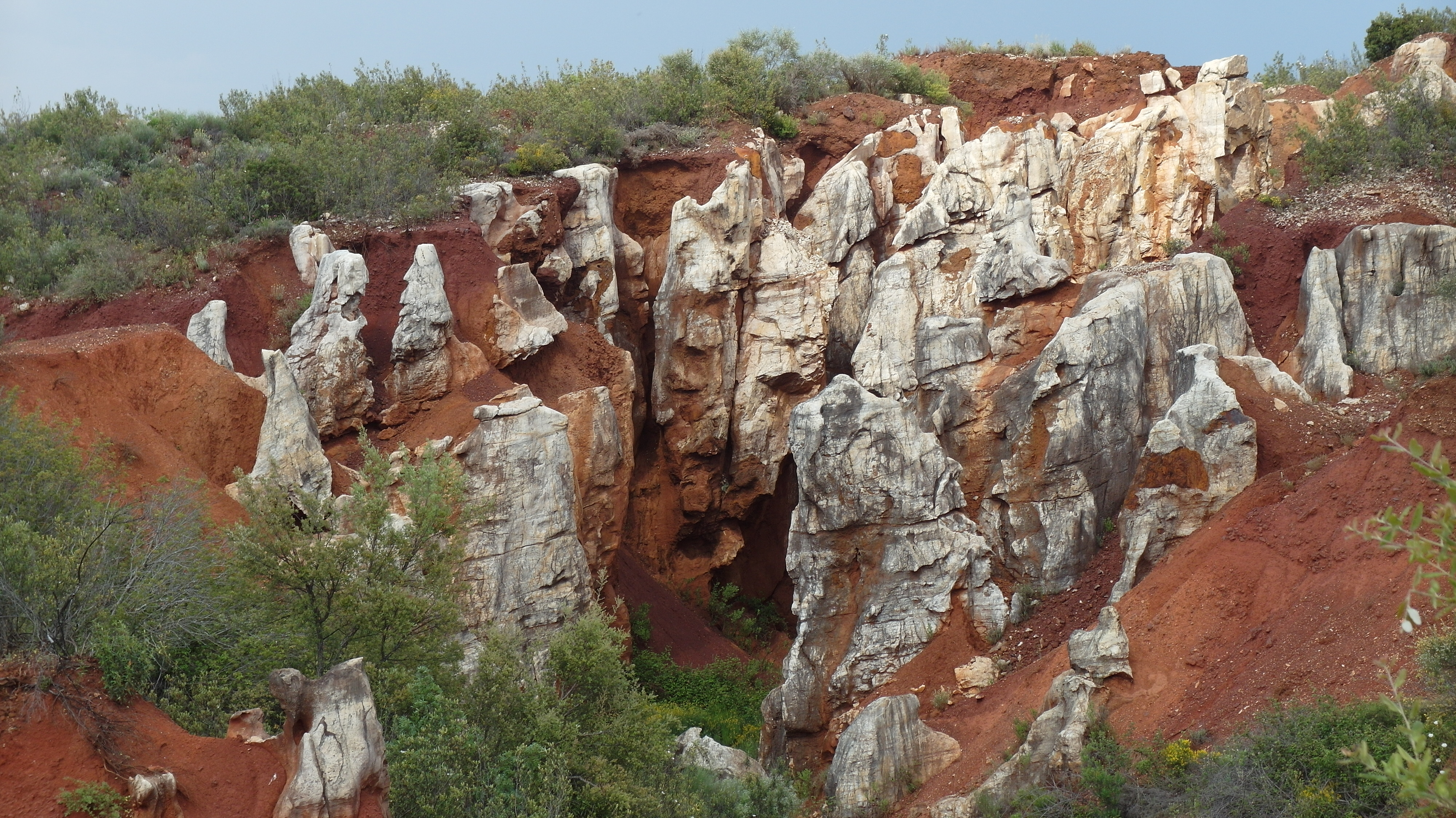 This is a photography of a Site of Community Importance in Spain with the ID: ES0000053. Natura2000 entry, EEA entry